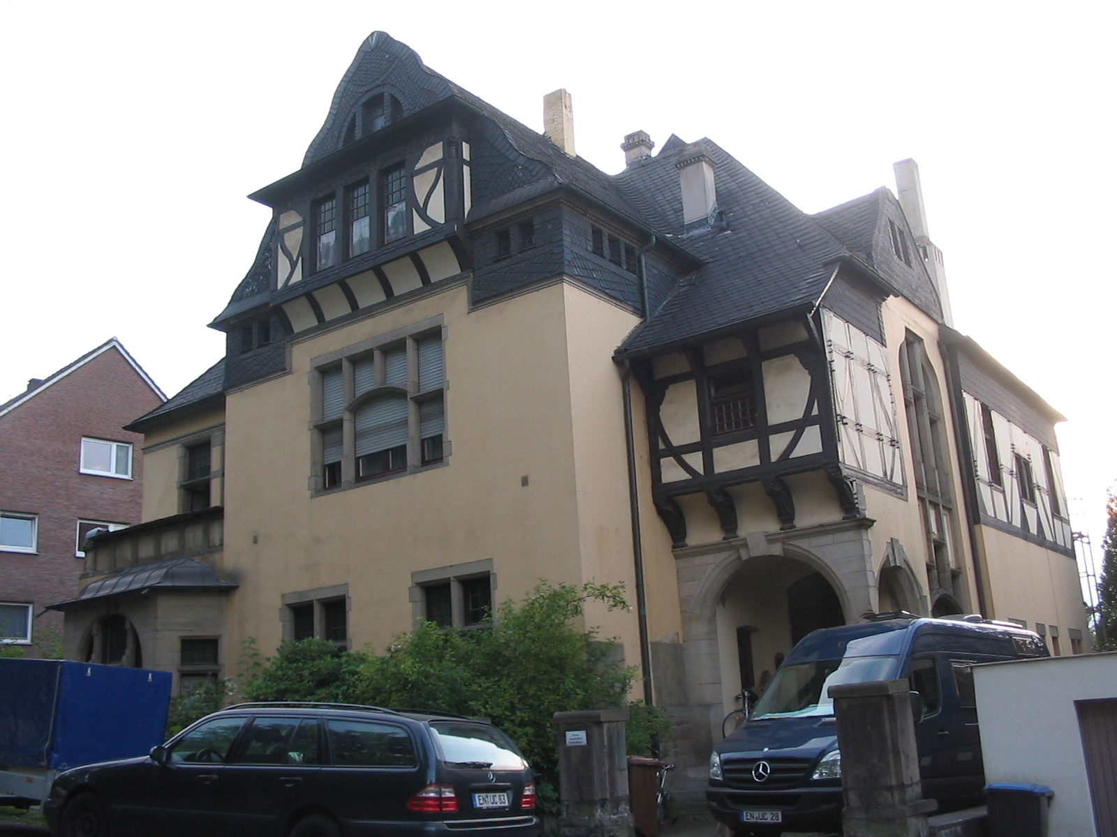 Villa Hanf, Parkweg 14 in Witten, Germany